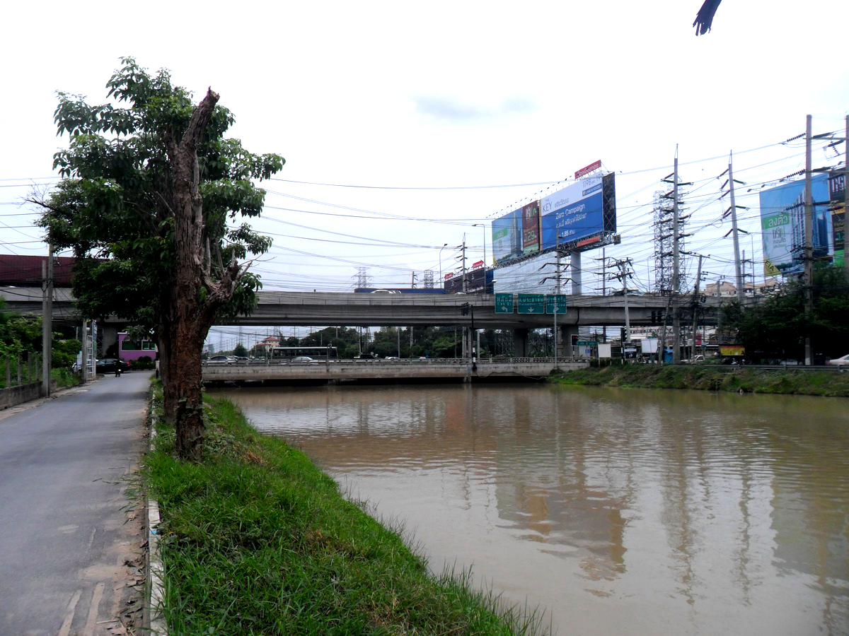 Khlong Prapa. View from Khet Lak Si, Bangok.